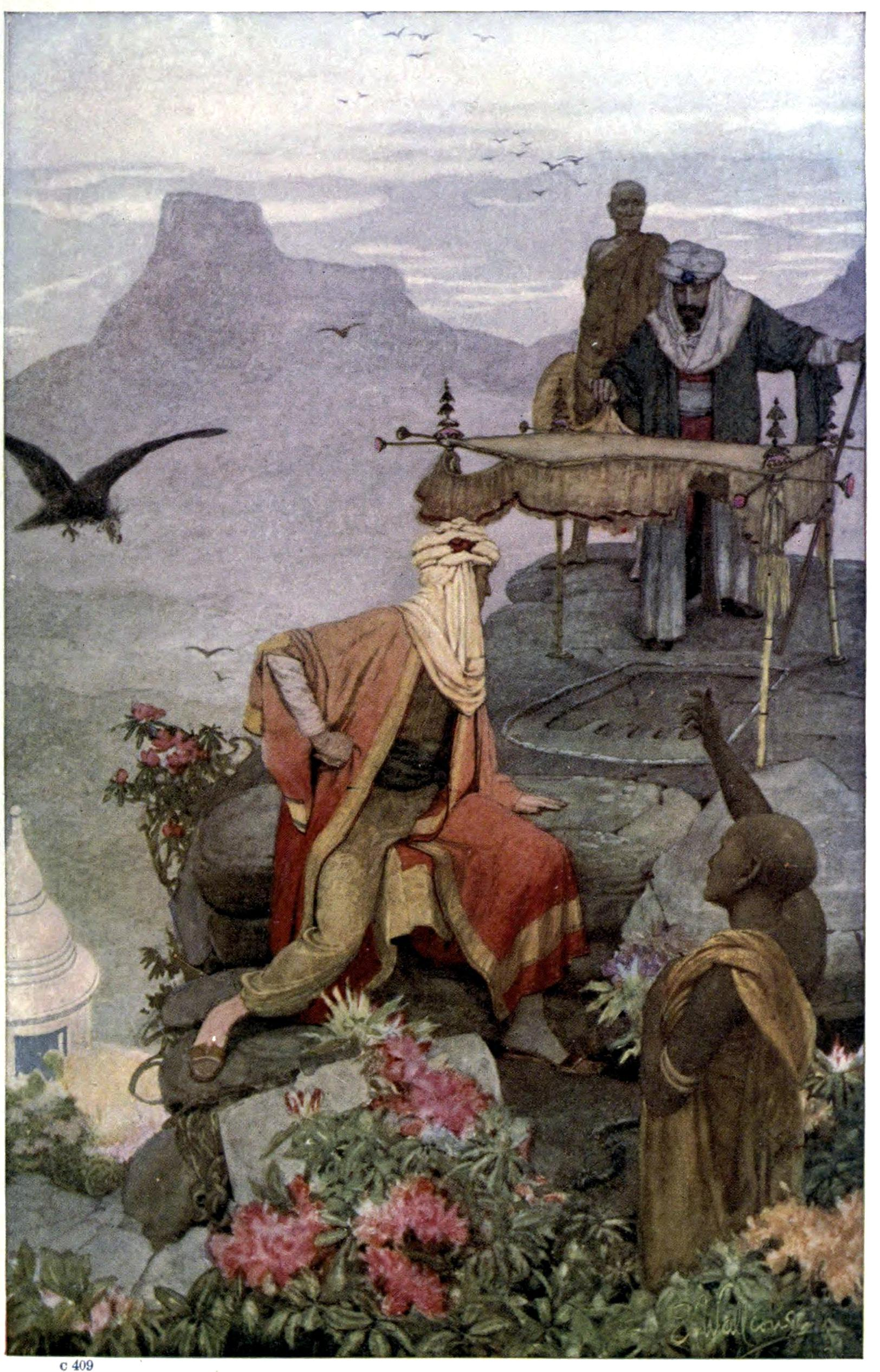 Pioneers in India by Johnston, Harry Hamilton, Sir, 1858-1927 Publication date 1913 Topics India -- Discovery and exploration, India -- History European settlements 1500-1765, India -- History British occupation, 1765-1947 Publisher London [etc.] : Blackie and son, limited Collection cdl; americana Digitizing sponsor MSN Contributor University of California Libraries Language English Bookplateleaf 4 Call number SRLF:LAGE-230522 Camera 5D Collection-library SRLF Copyright-evidence Evidence reported by alyson-wieczorek for item pioneersinindia00johniala on June 18, 2007: no visible notice of copyright; stated date is 1913. Copyright-evidence-date 20070618175118 Copyright-evidence-operator alyson-wieczorek Copyright-region US Identifier pioneersinindia00johniala Identifier-ark ark:/13960/t8bg2ks7d Identifier-bib LAGE-230522 Lcamid 1020705142 Openlibrary_edition OL7099511M Openlibrary_work OL1094605W Pages 372 Full catalog record MARCXML